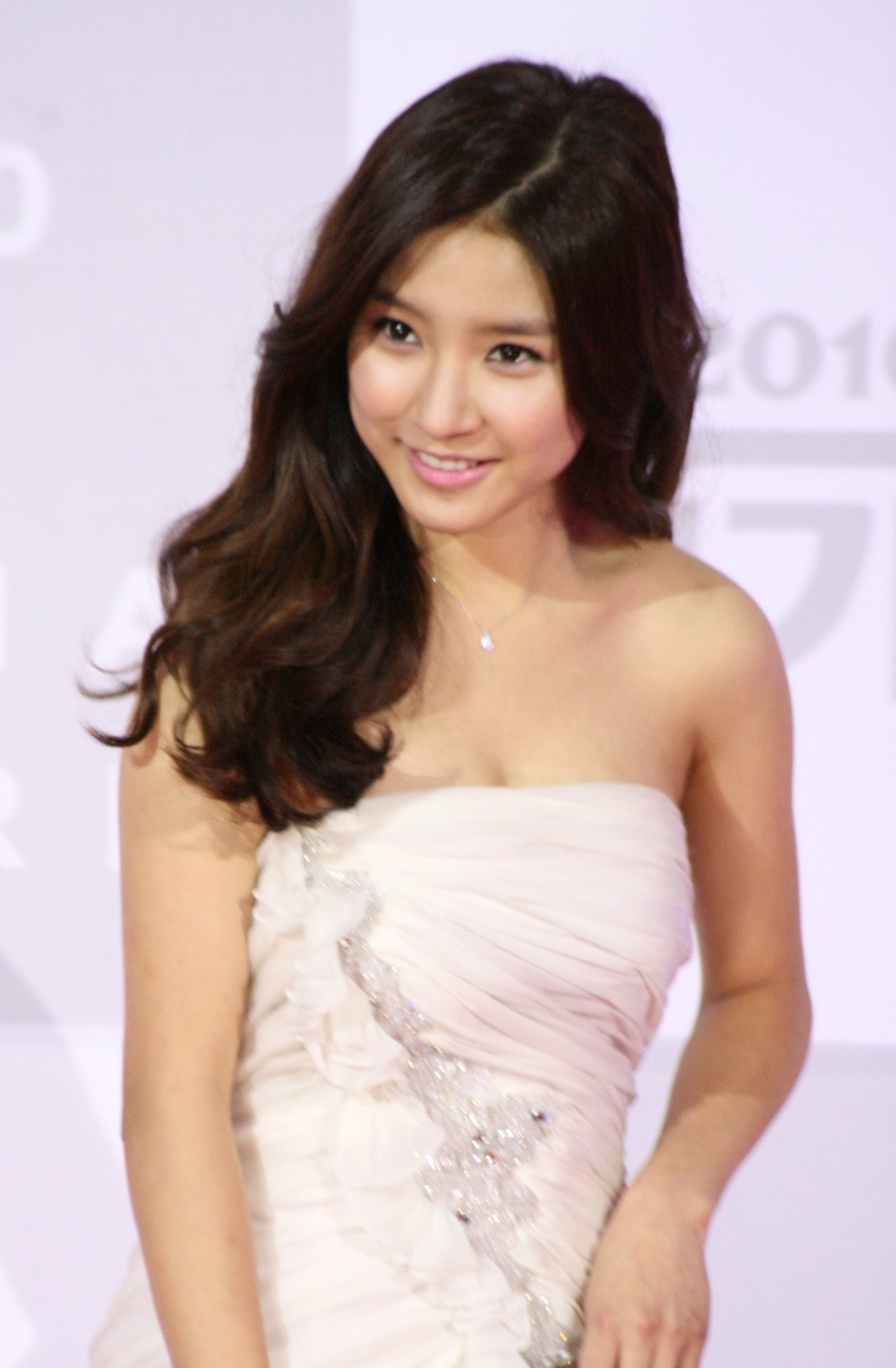 Kim So-eun at the 2010 KBS Drama Awards